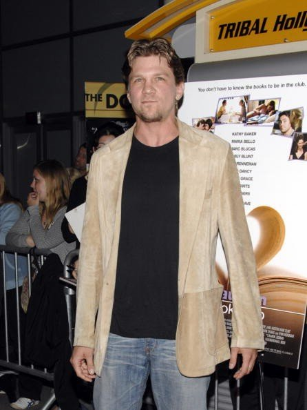 The photo is of Marc Blucas. It was taken in Hollywood at the premiere of the film Jane Austen Book Club in 2007. The photographer requested upload. This work is free and may be used by anyone for any purpose. If you wish to use this content, you do not need to request permission as long as you follow any licensing requirements mentioned on this page.